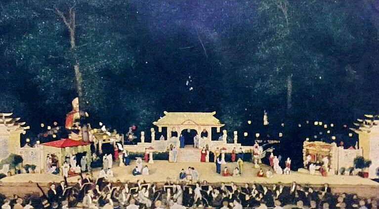 Postcard showing a stage production at the Municipal Theater, St. Louis, in 1923. There are no copyright marks on the item.